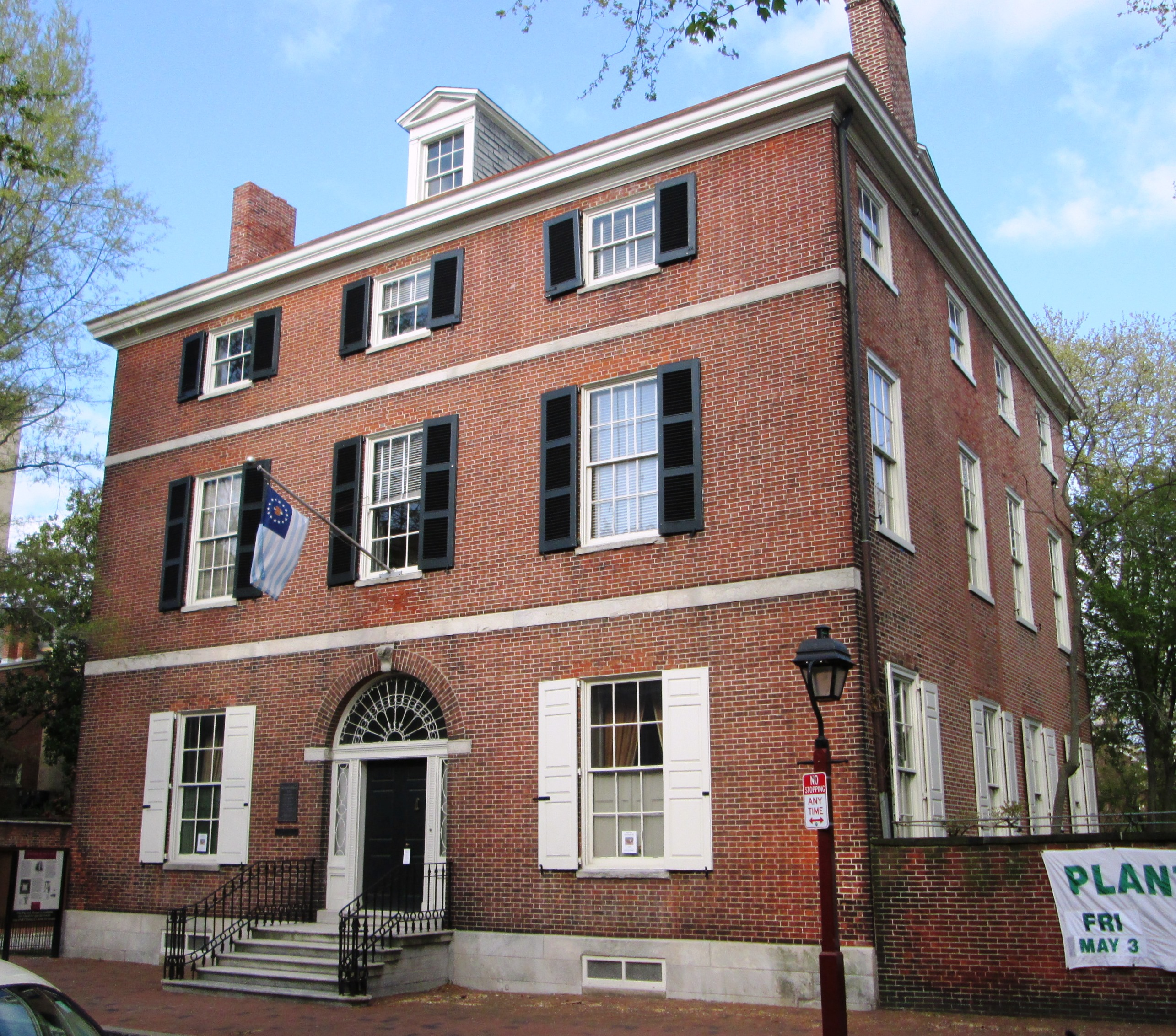 The Hill-Physick-Keith House at 321 S. 4th Street between Cypress and Delancey Streets in the Society Hill neighborhood fo Philadelphia was built in 1786 in the Federal style for wealthy wine merchant Henry Hill. From 1815 to 1837 it was the home of Philip Syng Physick, who has been called "the father of American surgery". The building was rescued from dilapidation by Walter Annerberg in the 1960s, restored, and turned over to the Philadelphia Society for the Preservation of Landmarks. The house is now a museum with a garden that replicates on of the early 19th century, and also serves as the headquarters of the State Society of the Cincinnati of Pennsylvania. It is the only extant example of a free-standing mansion in the colonial part of the city. (Sources: Philadelphia Architecture: A Guide to the City (2nd ed.), Architecture in Philadelphia: A Guide and State Society of the Cincinnati of Pennsylvania website)